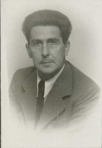 Ferdo Kozak (18 October 1894 - 8 December 1957), Slovene writer, playwright, editor and politician.